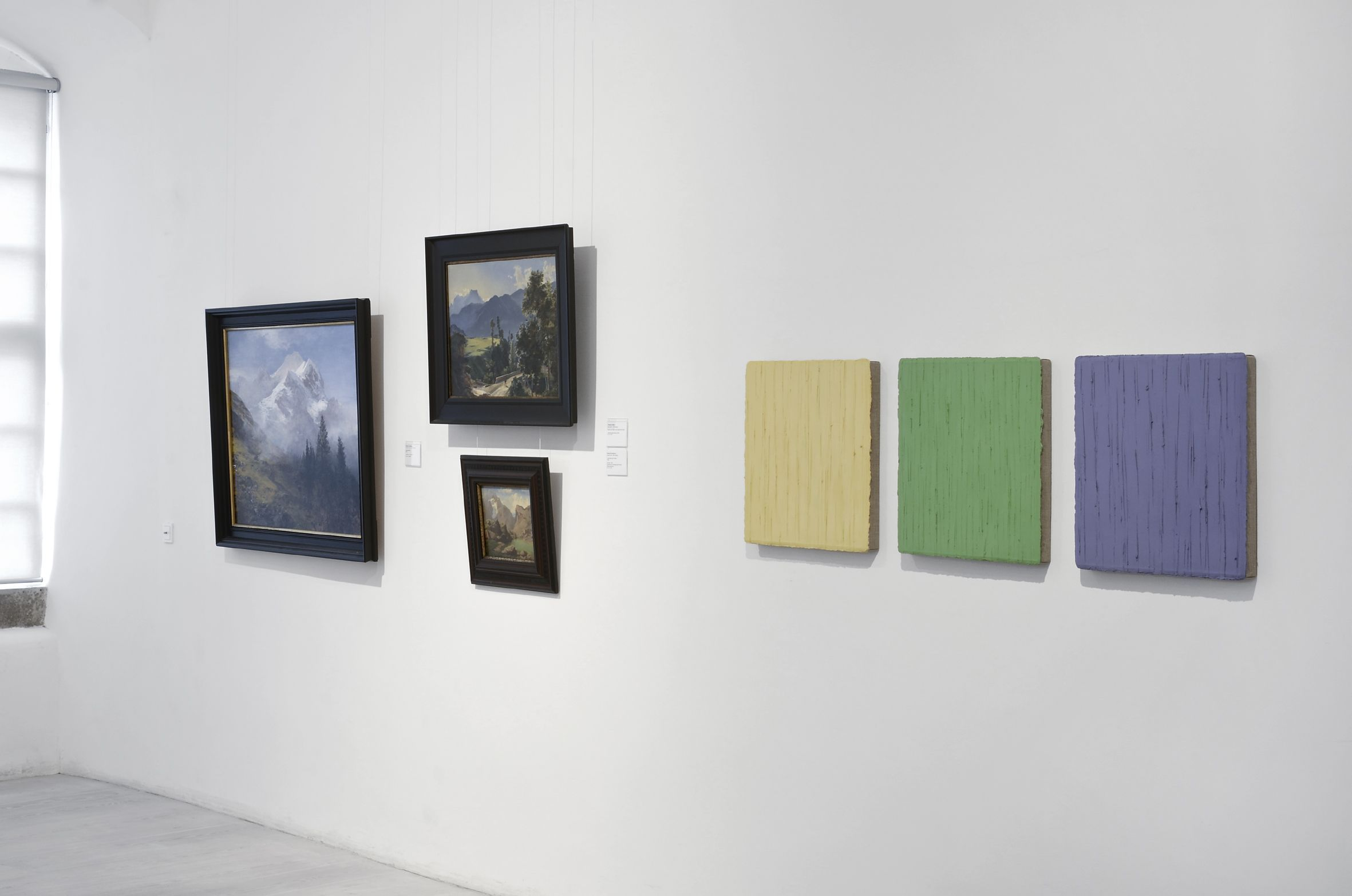 Far left: Edward Theodore Compton, The Grossglockner with Pasterze, 1908, oil on canvas Middle top: Friedrich Nerly, The Valley of Cadore in the Italian Alps, c. 1836, oil on cardboard Middle down: Anselm Feuerbach, In the Alps of Trentino, 1855, oil on canvas Right: Works by Christiane Conrad on the occasion of the exhibition at the Angermuseum Erfurt, 2015